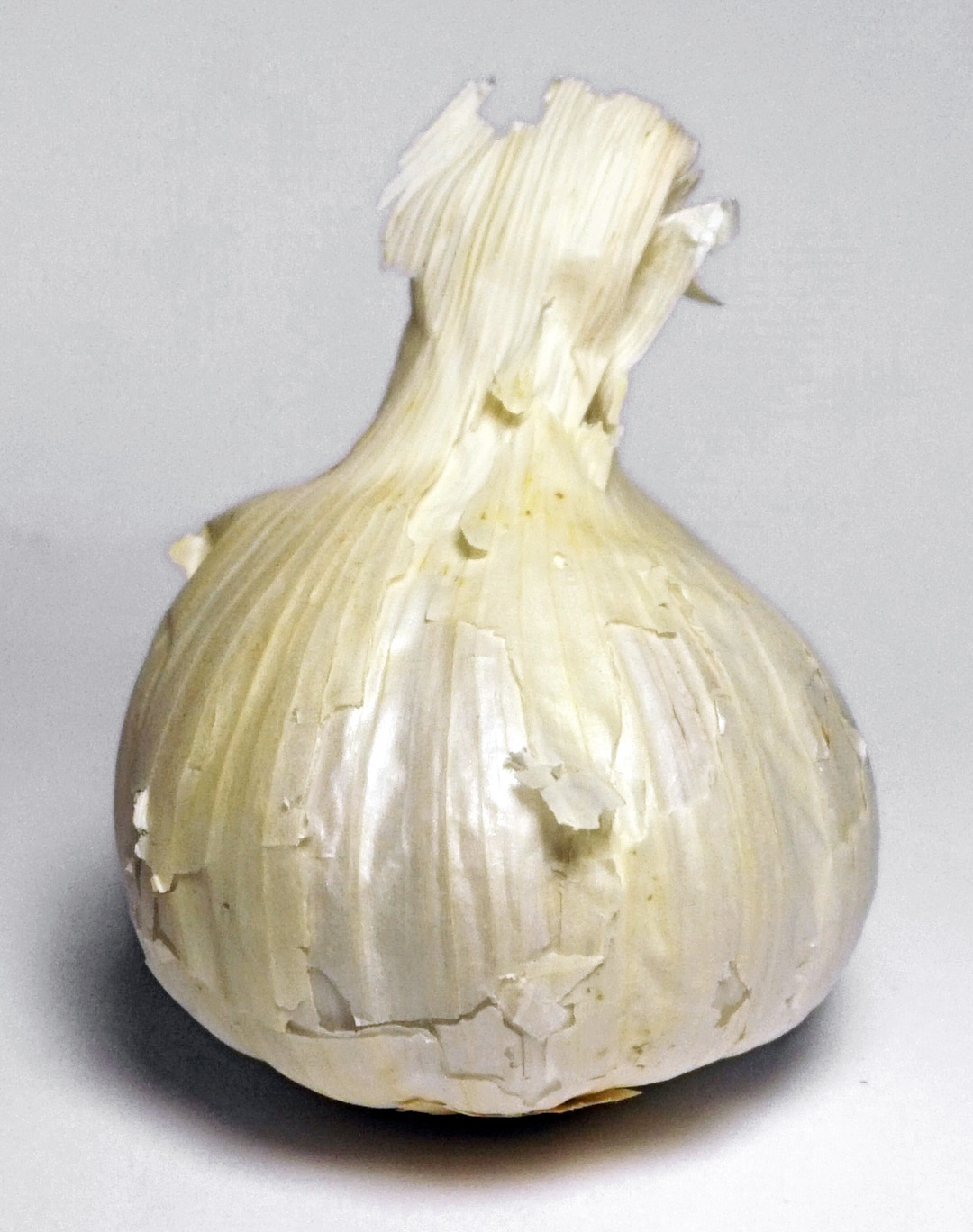 A garlic.